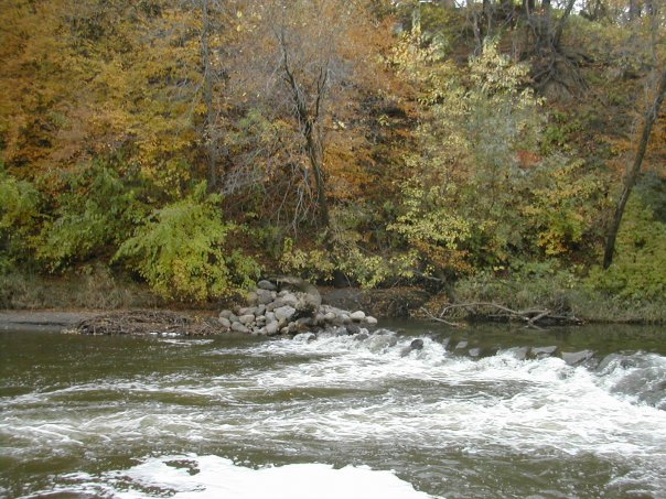 The Watonwan river flowing through Watona park in Madelia, Minnesota